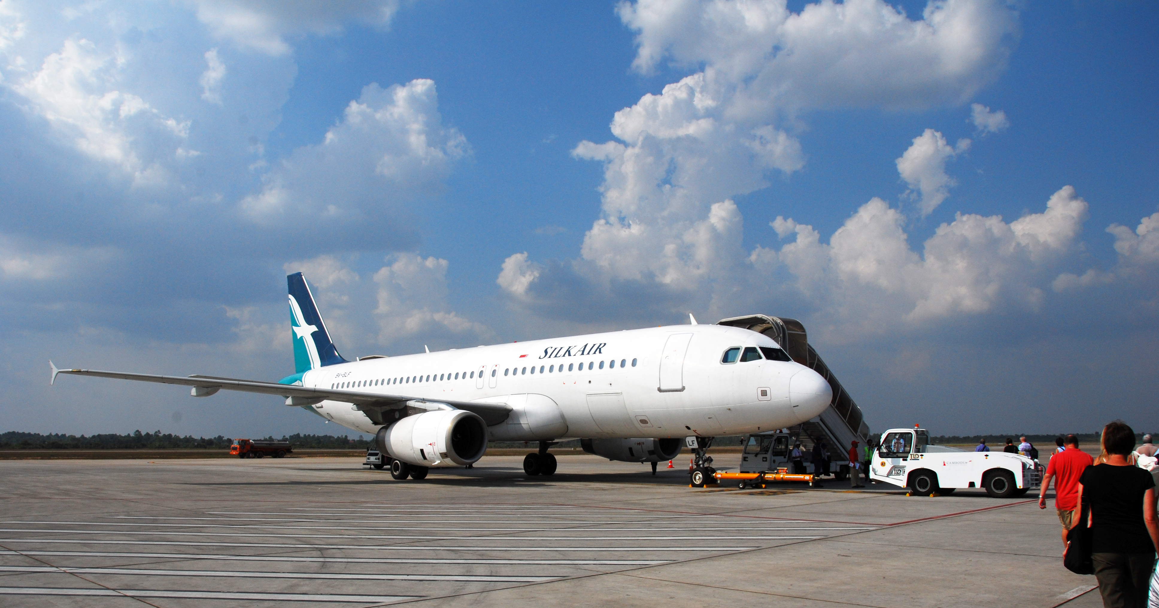 A SilkAir Airbus awaits passengers to board.